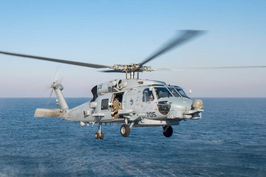 U.S. Navy sailors aboard USS STOCKDALE (DDG 106) conduct a helicopter in-flight refueling drill